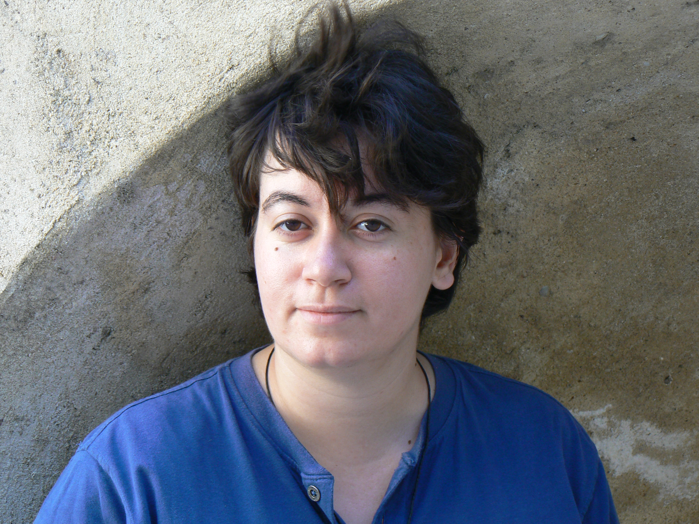 Samira Negrouche, Algerian writer, Portugal, 2010.